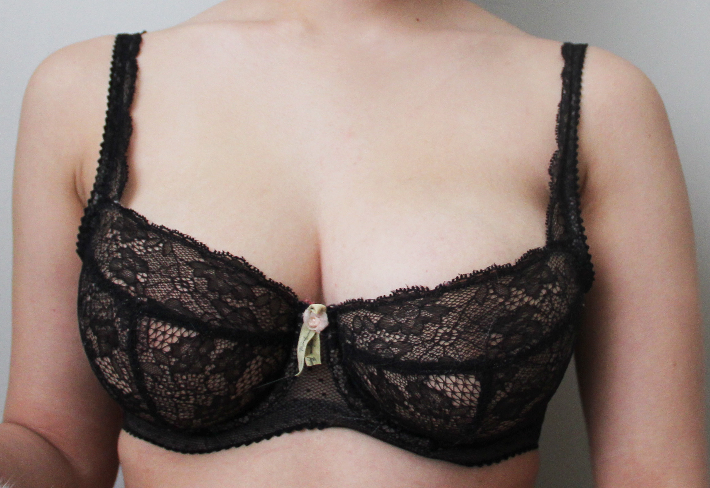 Woman wearing Fayreform 30DD black lace bra